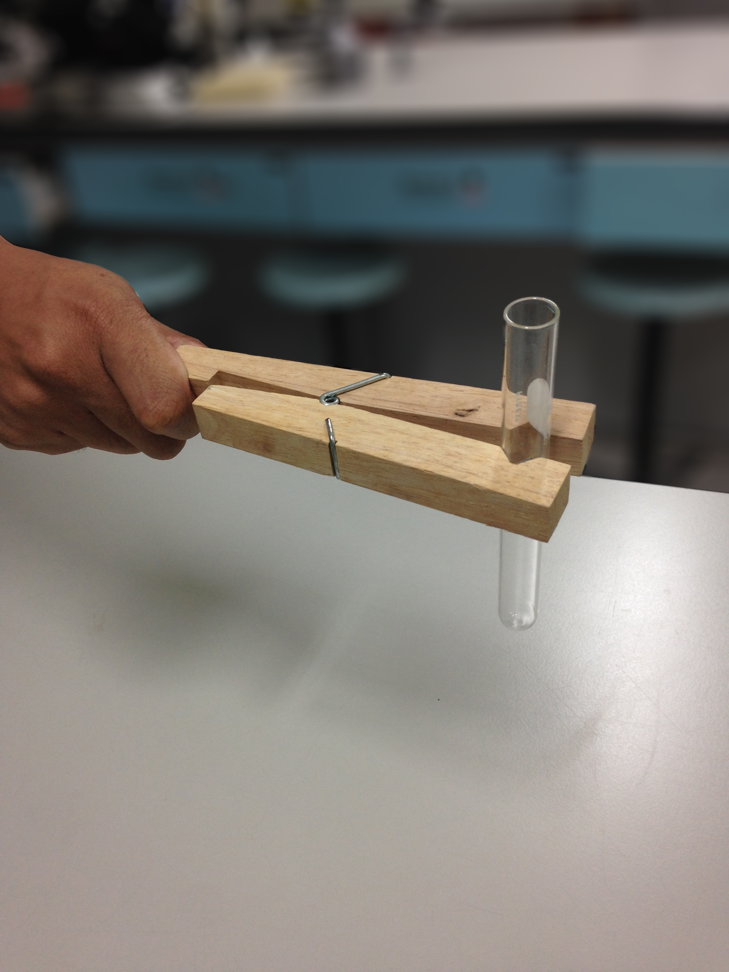 Test Tube Holder1 2015